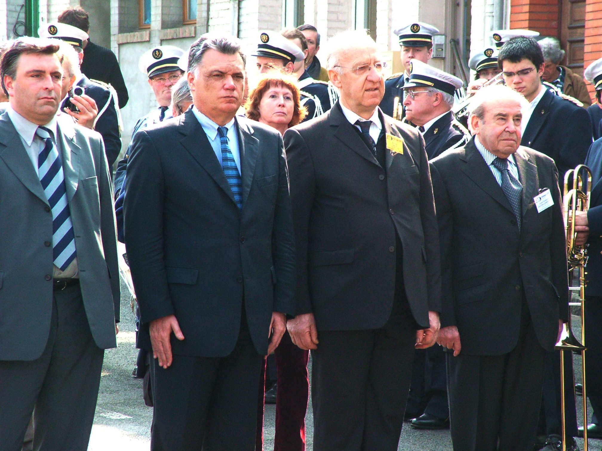 Boulogne-sur-mer, March 2005: Louis-Christophe Zaleski-Zamenhof (at right) and officials at the rededication of Esperanto Plaza, 100 years since the first World Congress of Esperanto.